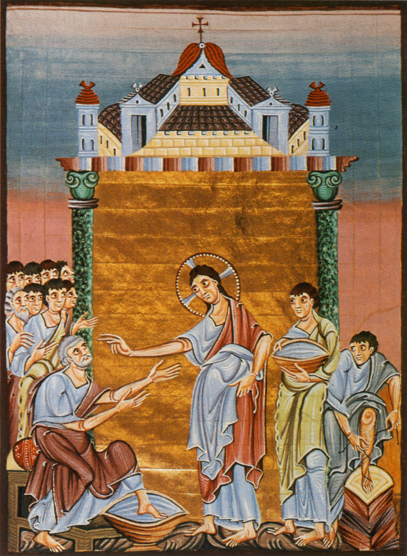 Christ washing the Apostles' feet, from the Otto III Gospels. Beyerische Staatsbibliothek, Munich.